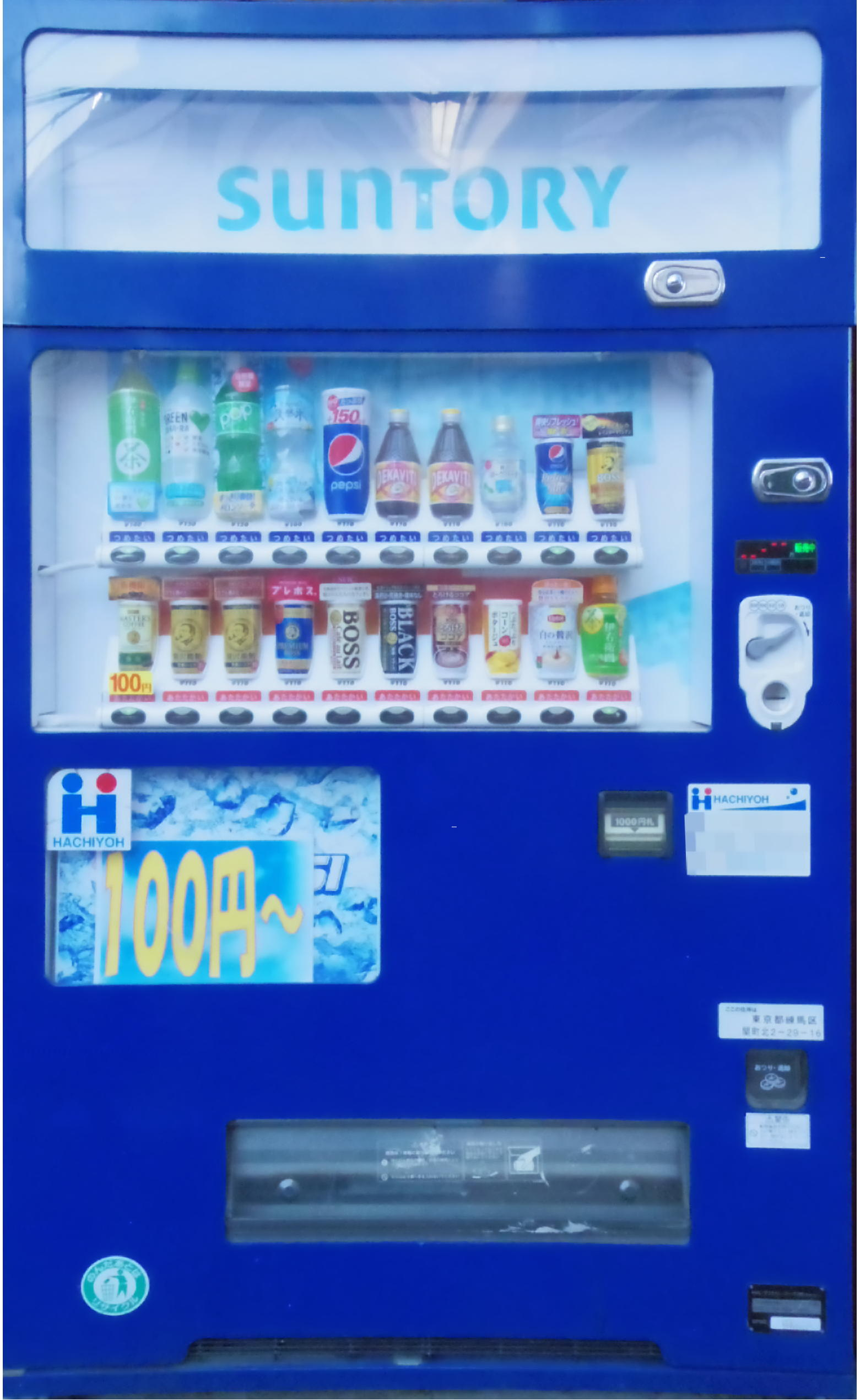 An example of a vending machine vending machine management company in Tokyo "Hachiyo" manages. This is one of Suntory.